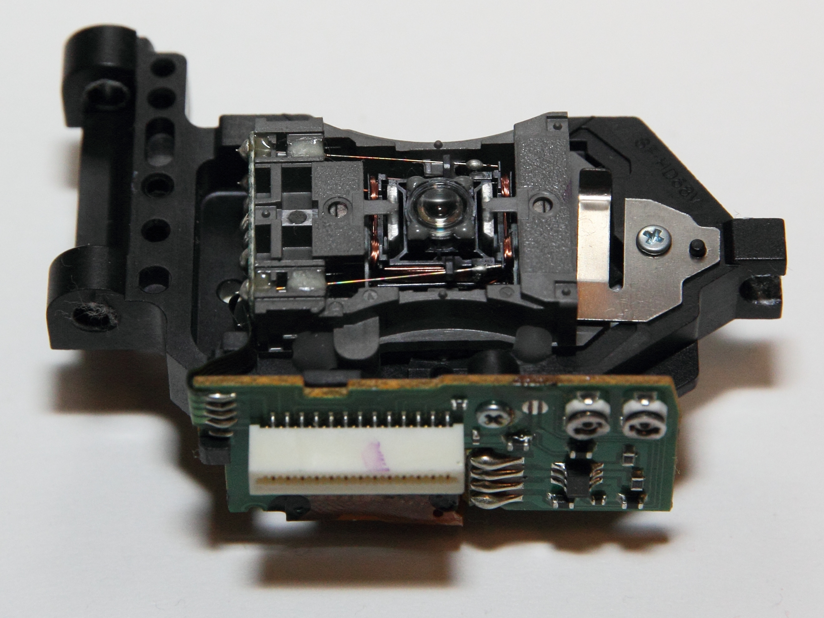 LG 5.25" CD/DVD drive GDR-8164B, laser read head.